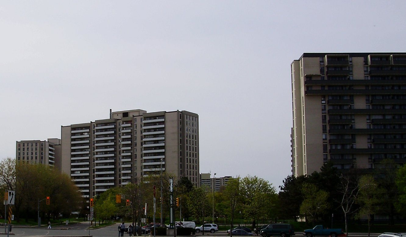 High-rise apartment buildings in the Toronto neighbourhood of Parkway Forest, south of Sheppard Avenue.